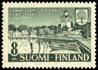 Postage stamp celebrating 400 years of the town of Tammisaari